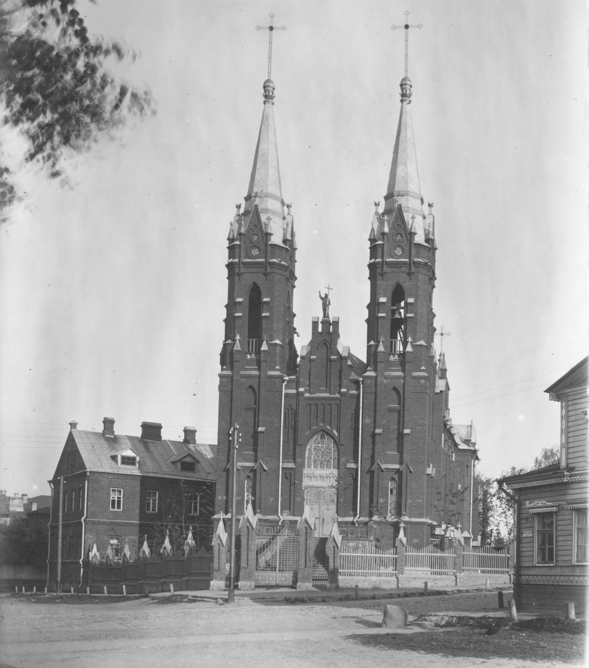 Koscol in Rybinsk with the statue of Christ